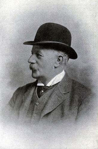 Photograph of British MP and Founder/President of the Kennel Club.